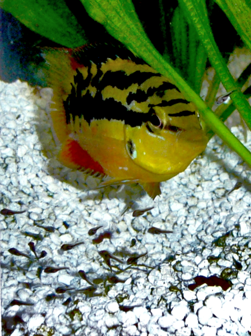 salvini female with fry